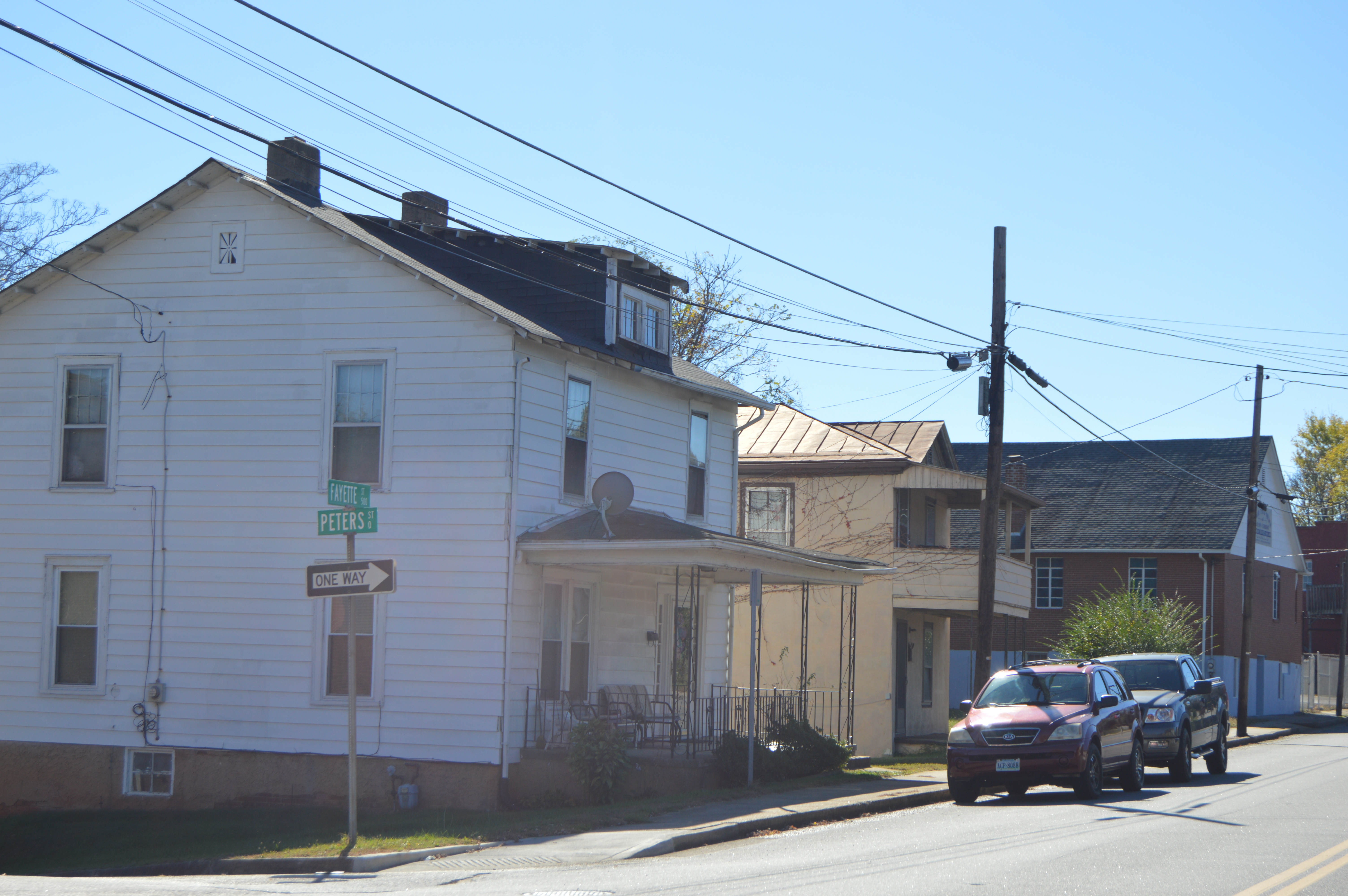 Houses on the southern side of the 500 block of W. Fayette Street in Martinsville, Virginia, United States. The three buildings are a house built in 1923, a house built in 1925, and a church built in 1920. This block is part of the Fayette Street Historic District, a historic district that is listed on the National Register of Historic Places.